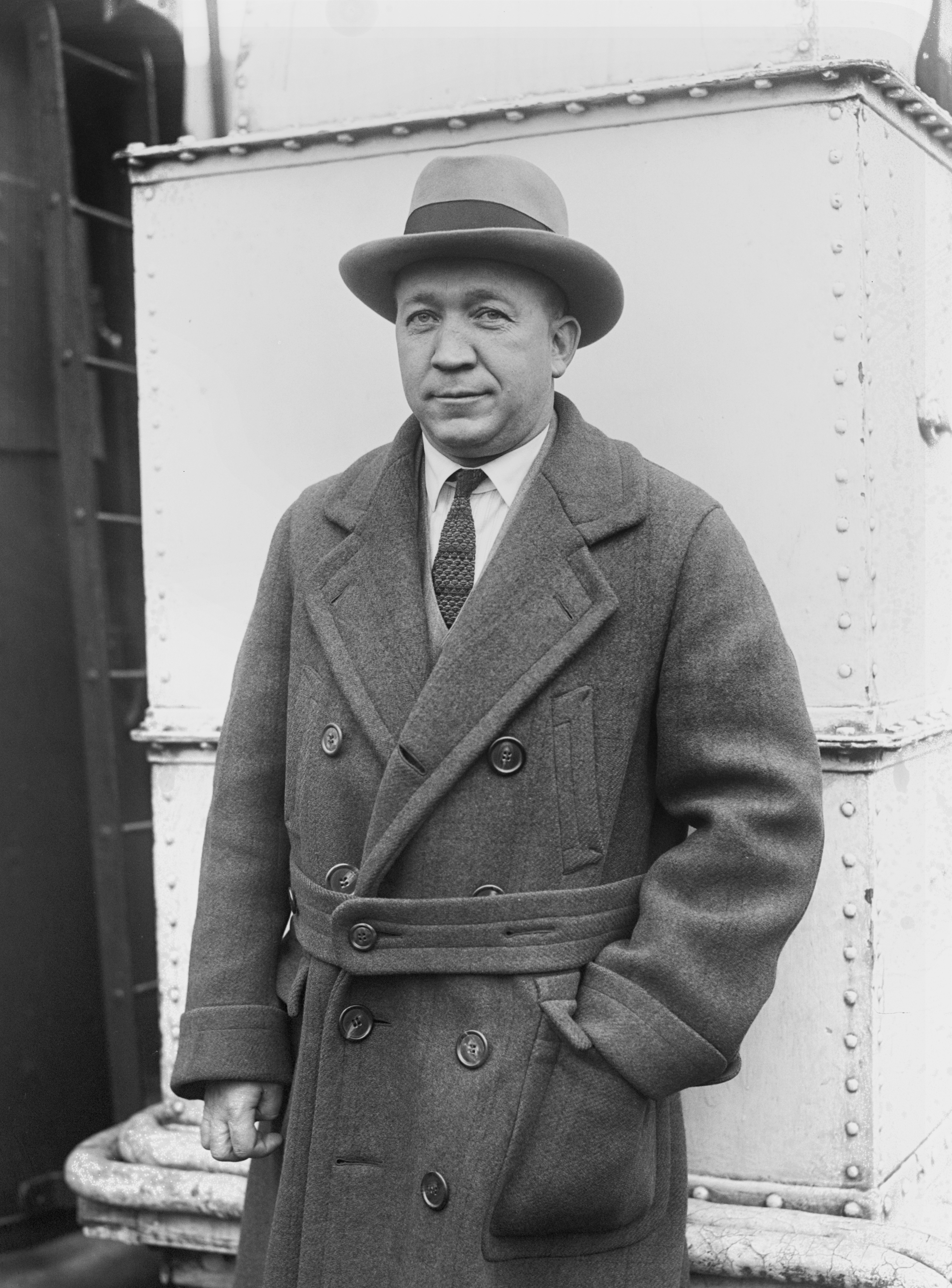 Knute Rockne on a ship's deck